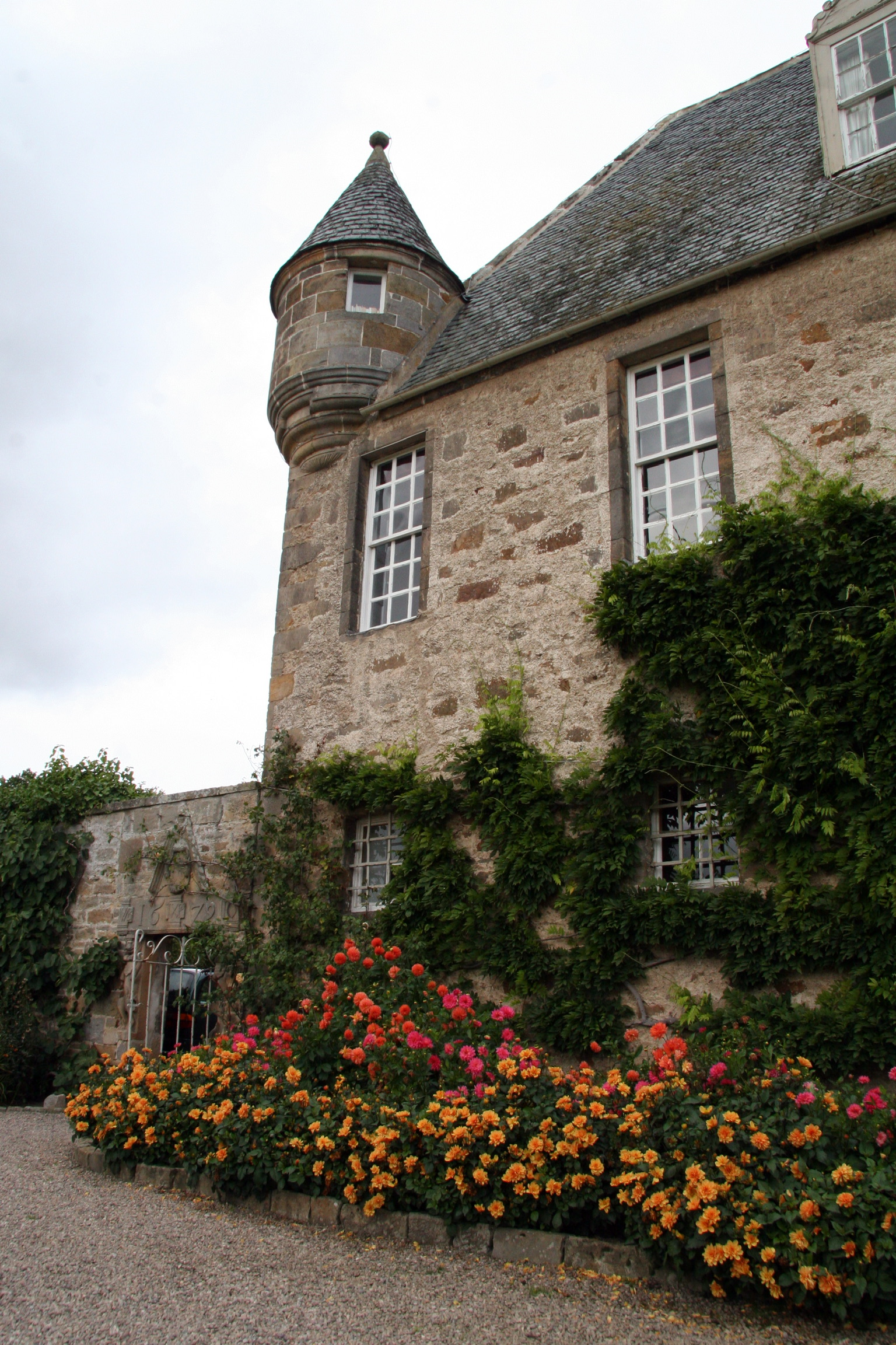 The South West wing of Gordonstoun House, the main building within the school. This houses administrative offices and, until recently, was also a boarding house.